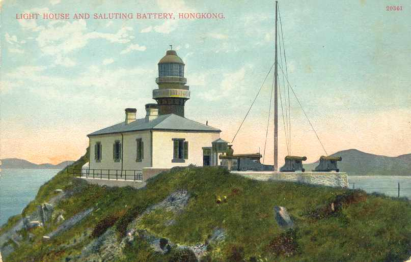 Postcard of the Waglan Island Lighthouse in 1910s